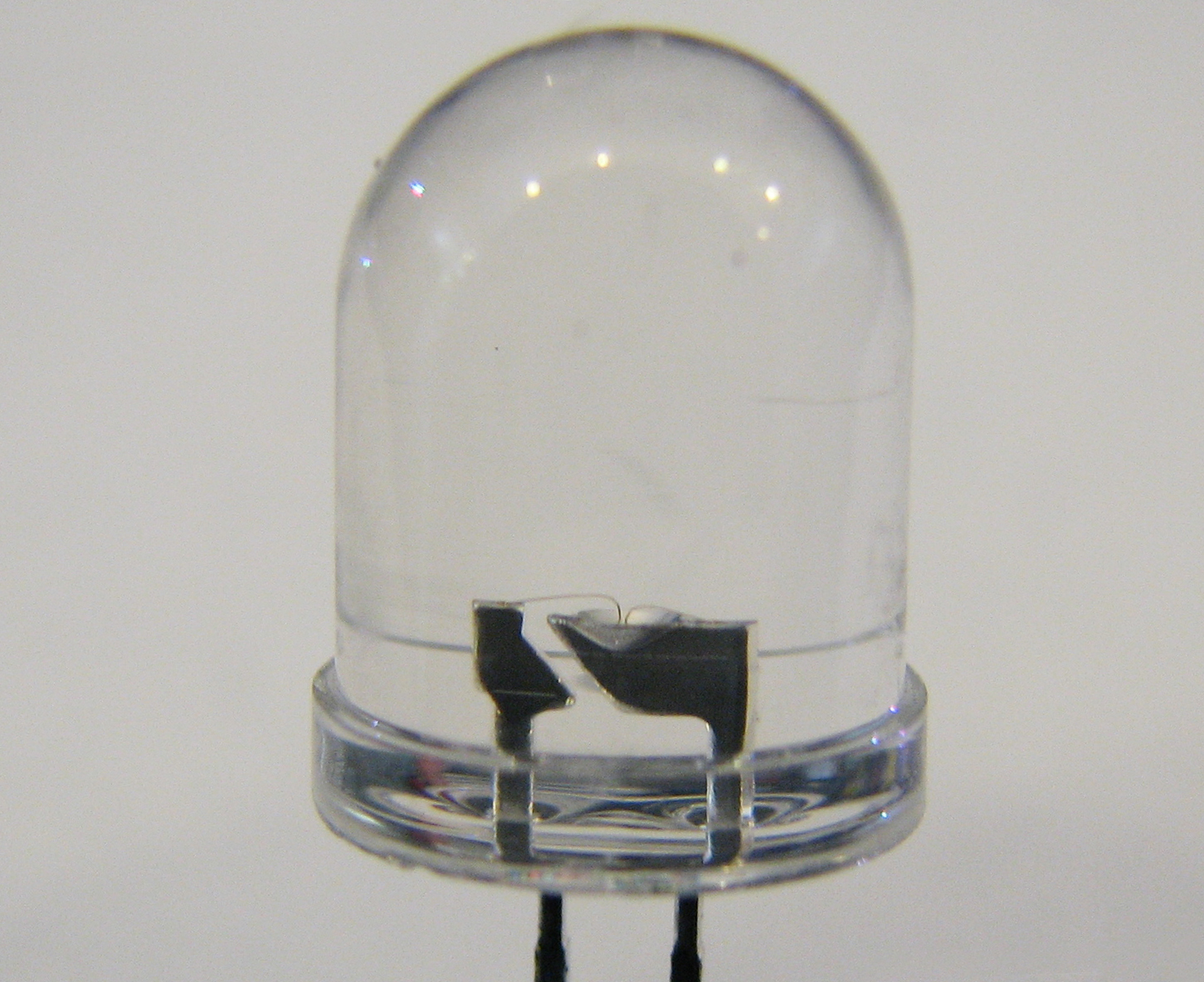 A white LED.